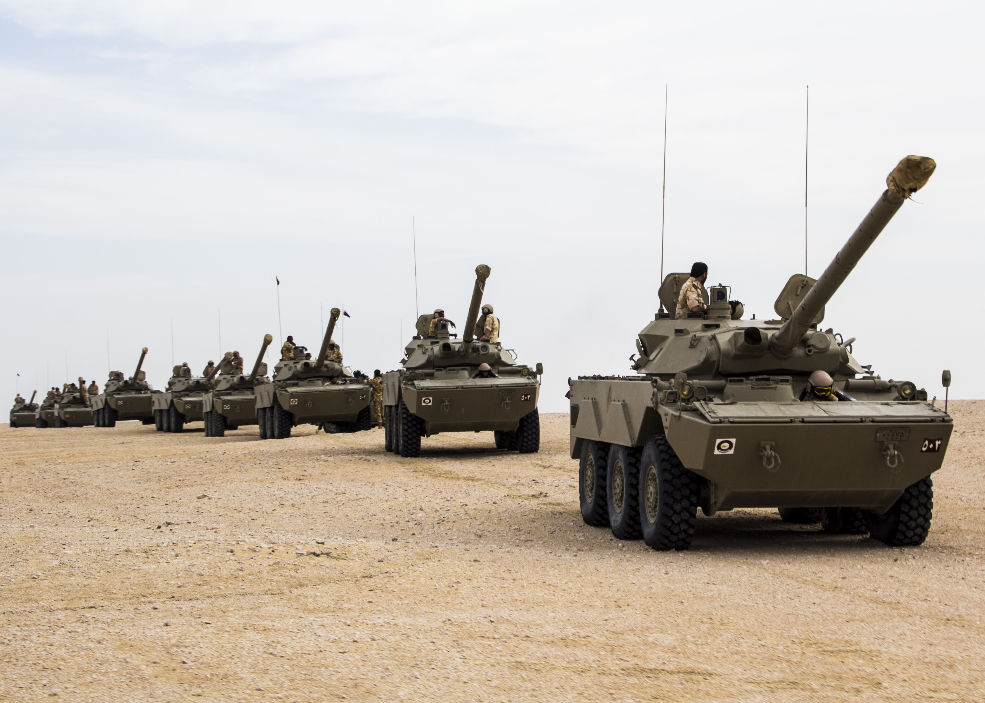 Tanks AMX-10 RC assigned the Qatar Emiri Land Forces roll through Al Galail, Qatar, April 28, during Eagle Resolve 2013, an annual multilateral exercise designed to enhance regional cooperative defense efforts in the Gulf Cooperation Council nations and U.S. Central Command. The 26th MEU is deployed to the 5th Fleet area of operations as part of the Kearsarge Amphibious Ready Group. The 26th MEU operates continuously across the globe, providing the president and unified combatant commanders with a forward-deployed, sea-based quick reaction force. (U.S. Marine Corps photo by Lance Cpl. Juanenrique Owings, 26th MEU Combat Camera/Released)